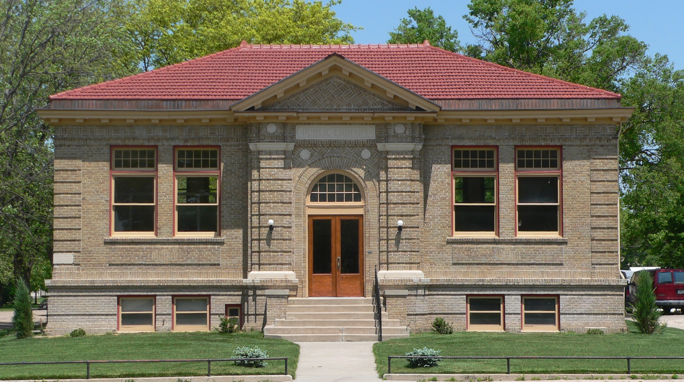 Loup City Township Carnegie Library in Loup City, Nebraska; seen from the south. The Classical Revival building was constructed in 1917. It is listed in the National Register of Historic Places.